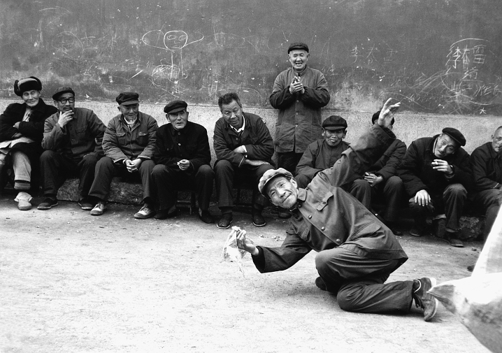 China 1987, Storyteller. Photo by Jiri Tondl